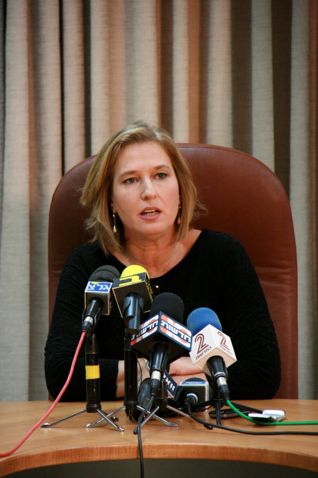 leader of Opposition Tzipi Livni during press conference at Kadima Party meetings room, The Knesset, Jerusalem